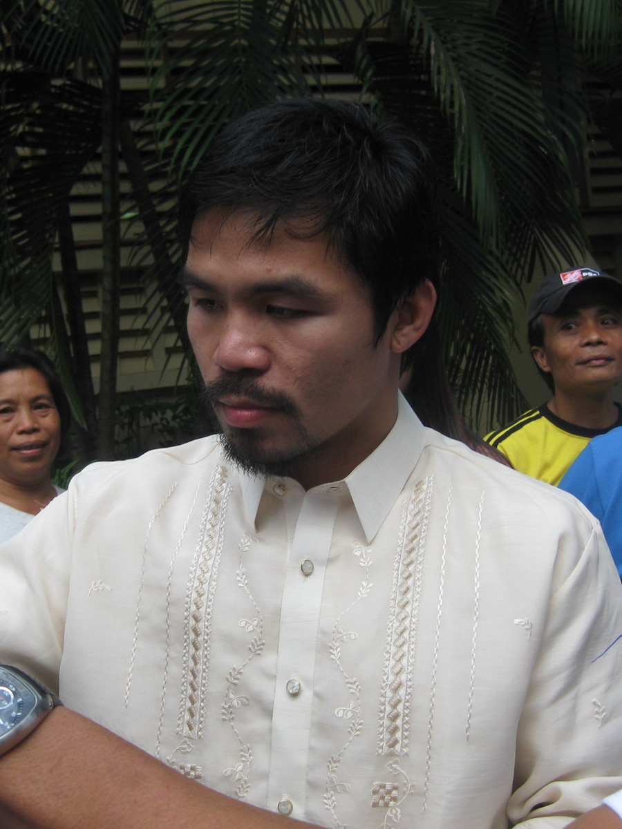 Rep. Manny Pacquiao at a speaking engagement in Silliman University, Dumaguete City, Negros Oriental, Philippines.